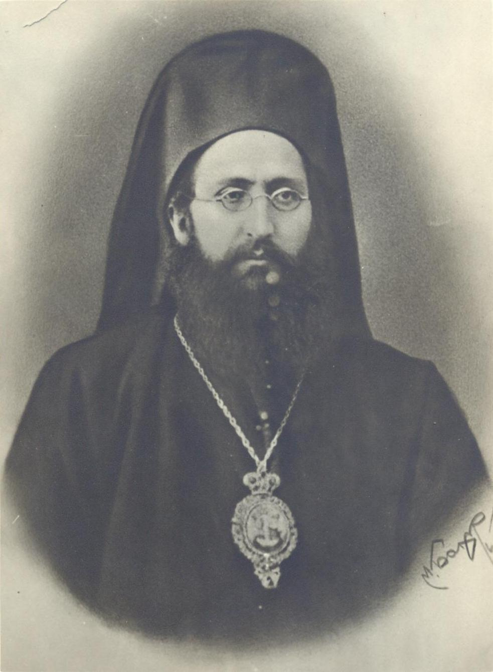 Gervasii, Bishop of Sliven